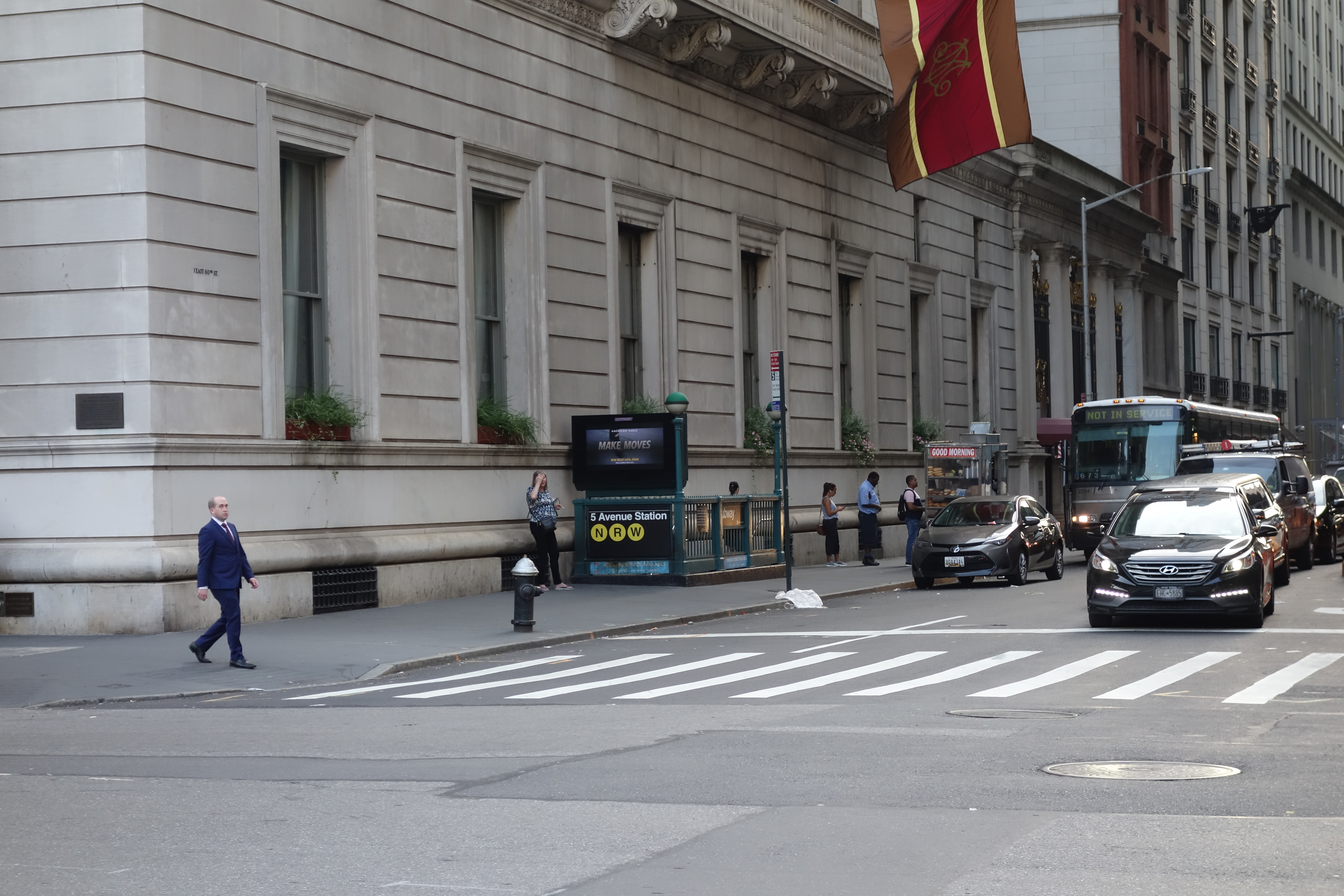 An entrance to the 5th Avenue–59th Street BMT station adjacent to the Metropolitan Club at the northeast corner of 5th Avenue and 60th Street, looking east from Grand Army Plaza in Midtown Manhattan.